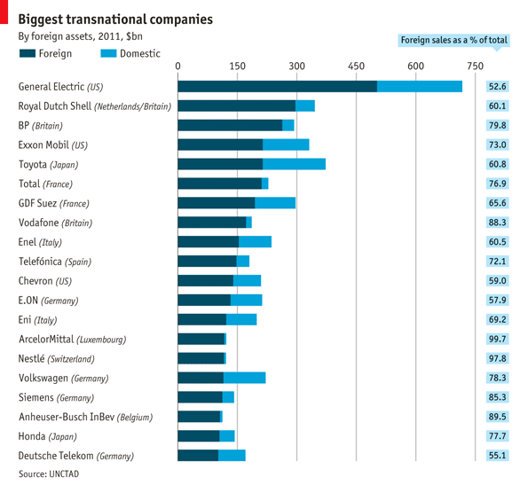 This image was found here: And is greatly needed on the following wikipedia page